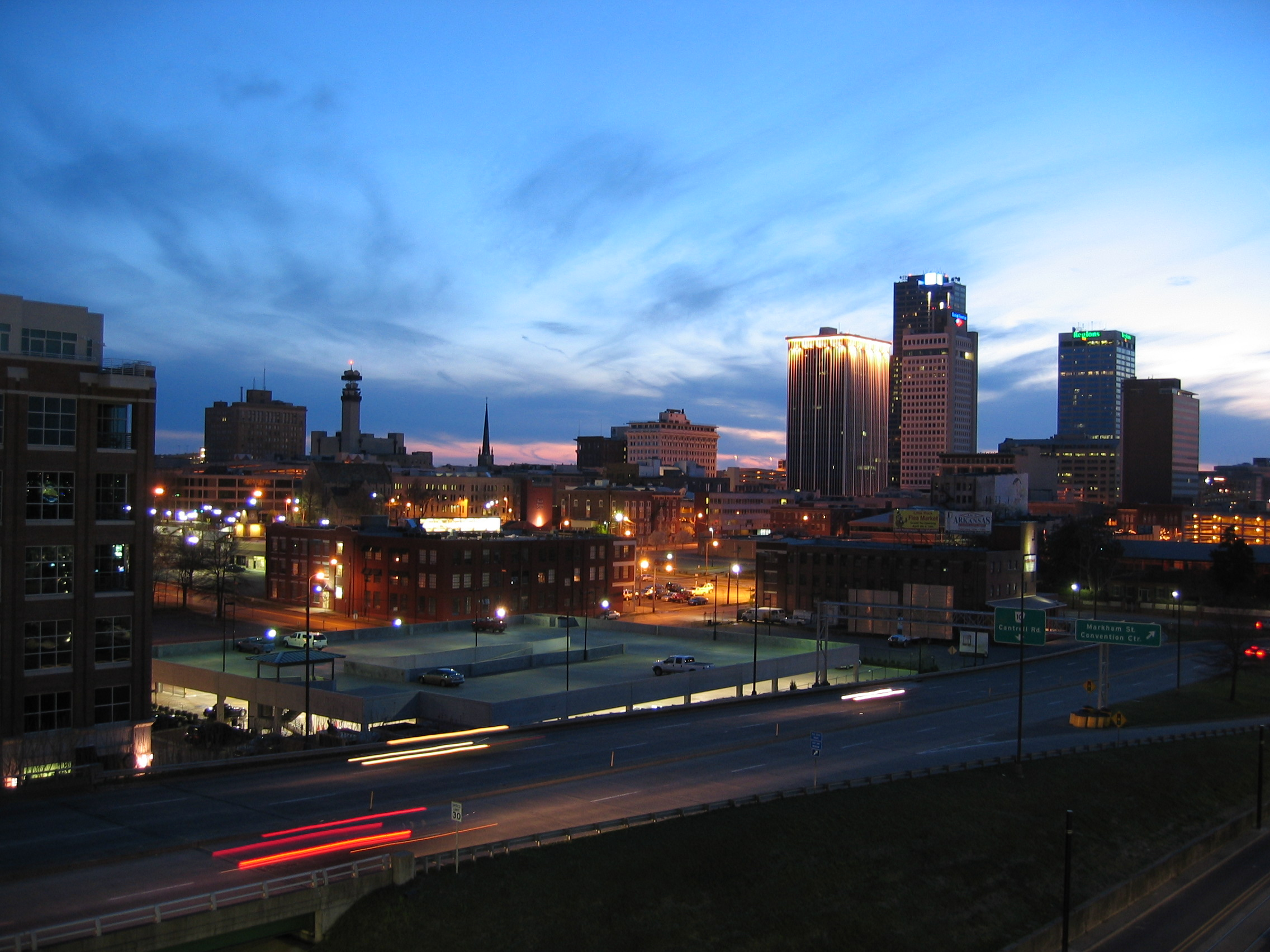 Skyline of Little Rock, Arkansas, photographed from the top of the River Market parking deck looking towards the southwest.